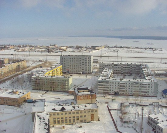 Foto